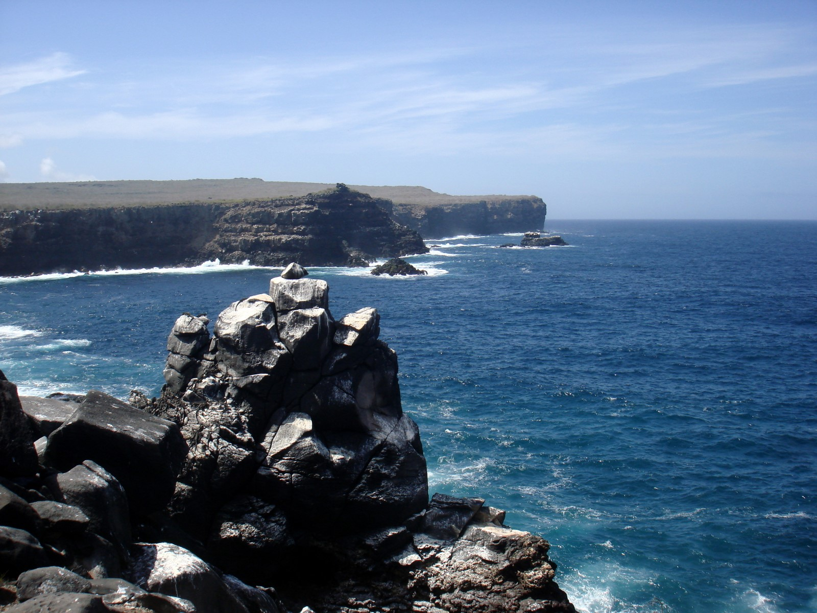 A view down the back of South Plaza island. Birds nest in them thar cliffs.